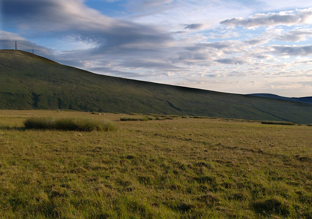 Shielings , north of Snaefell. Isle of Man. The low evening light throws these shielings (the remains of primitive hut foundations) into relief. For some reason the rushes only grow within what was the actual hut area.